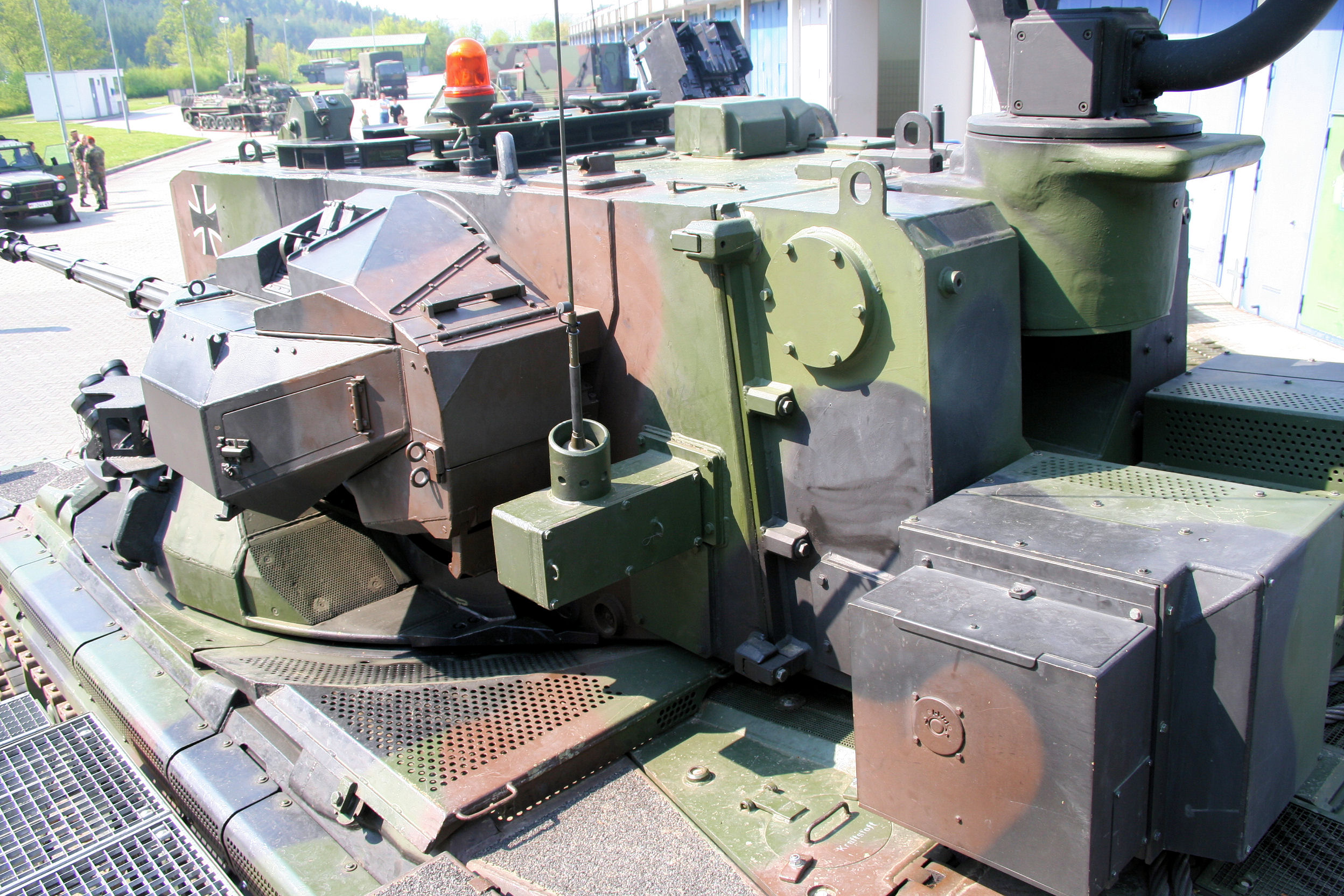 Gepard 1A2 Turm Gepard 1A2 turret